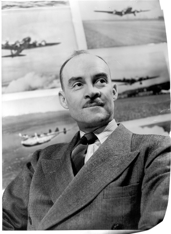 Catalog #: BIOA00067 Last Name: Allen First Name: Edmund, T Eddie Notes: Repository: San Diego Air and Space Museum Archive